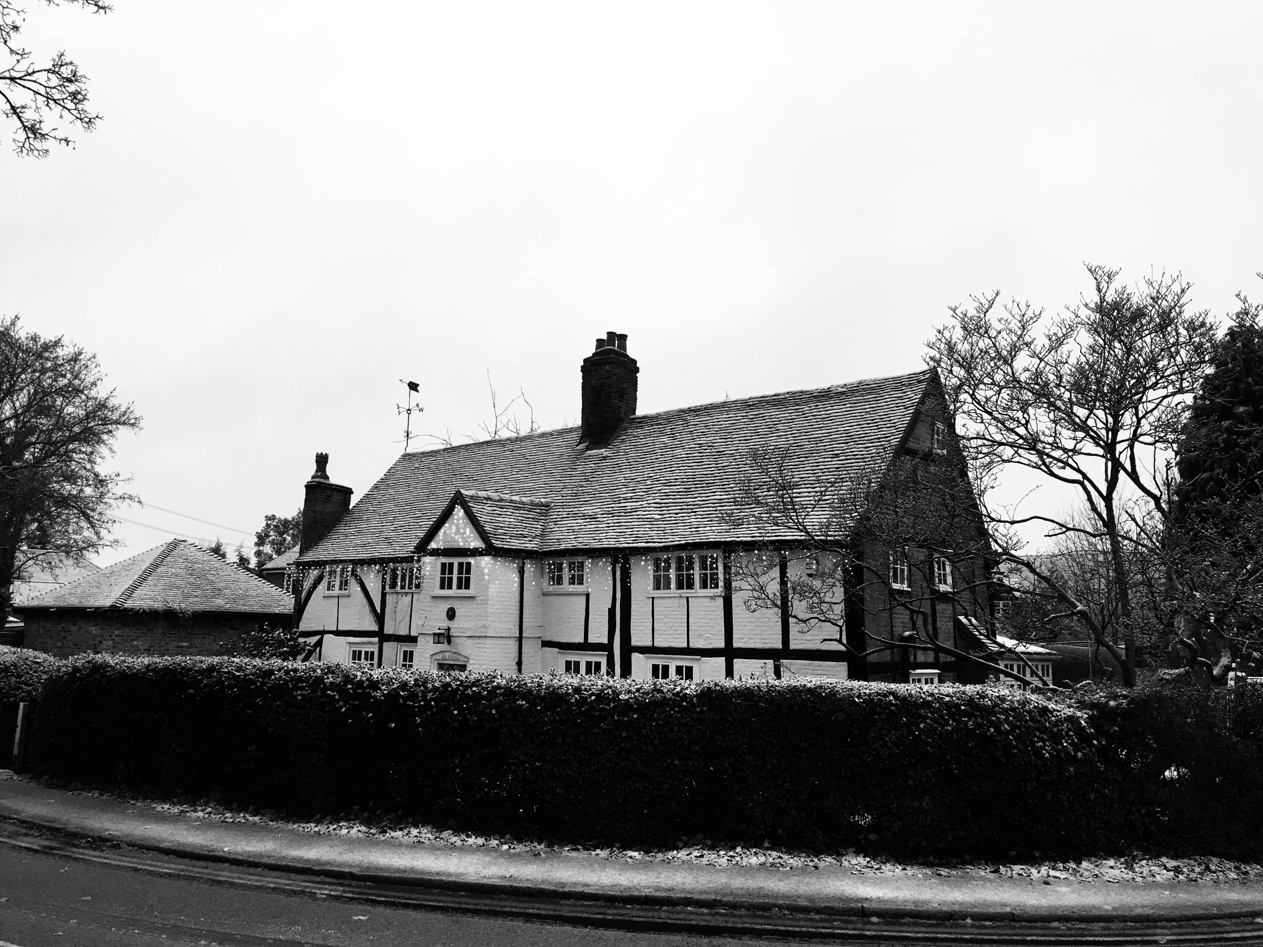 The Cottage in Village Road, Thorpe, Surrey during a light snowfall. Timber framed with brick panels and pegtile roof.